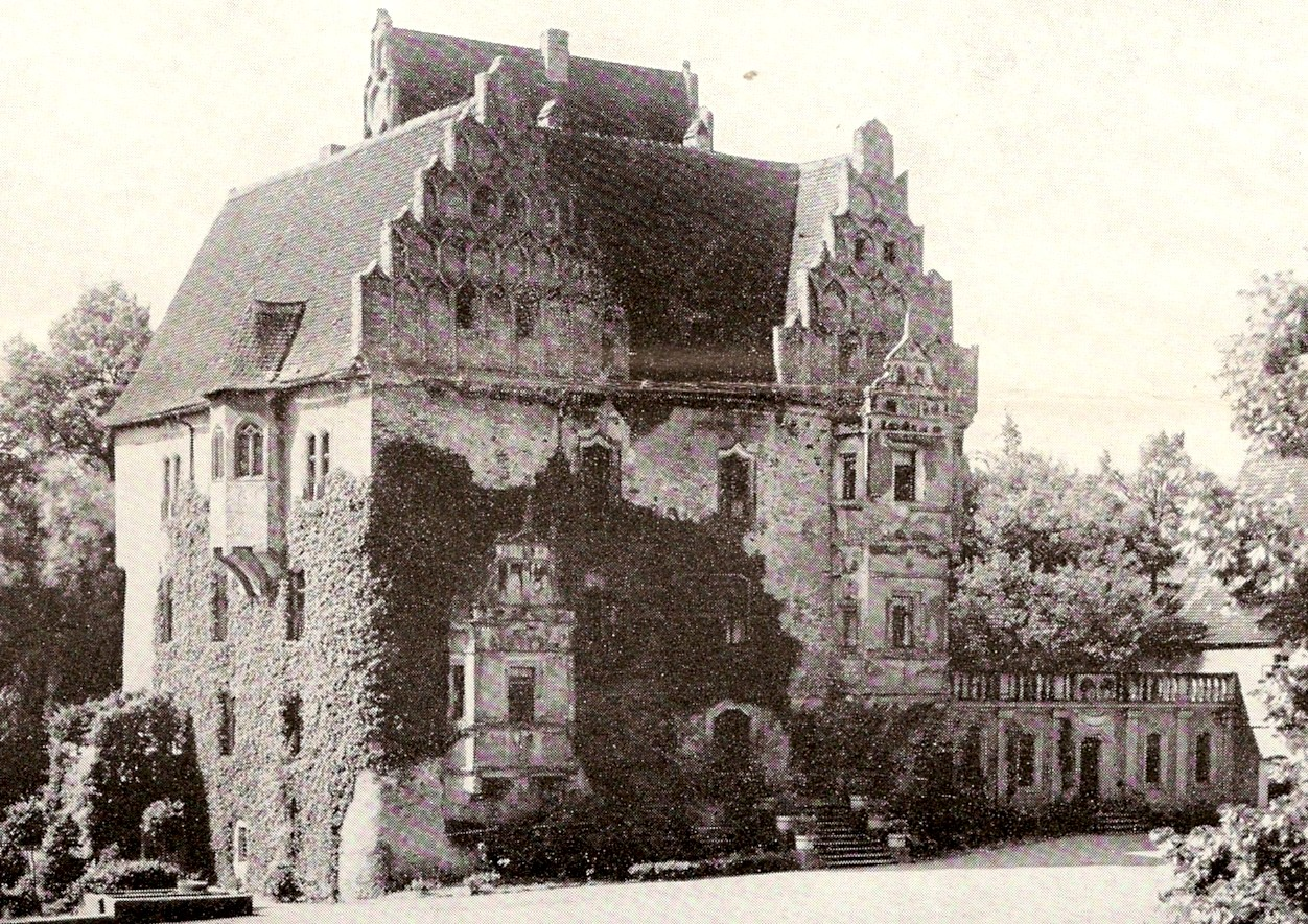 Heynitz castle (about 1900) near Nossen, Landkreis Meißen, Saxonia, Germany